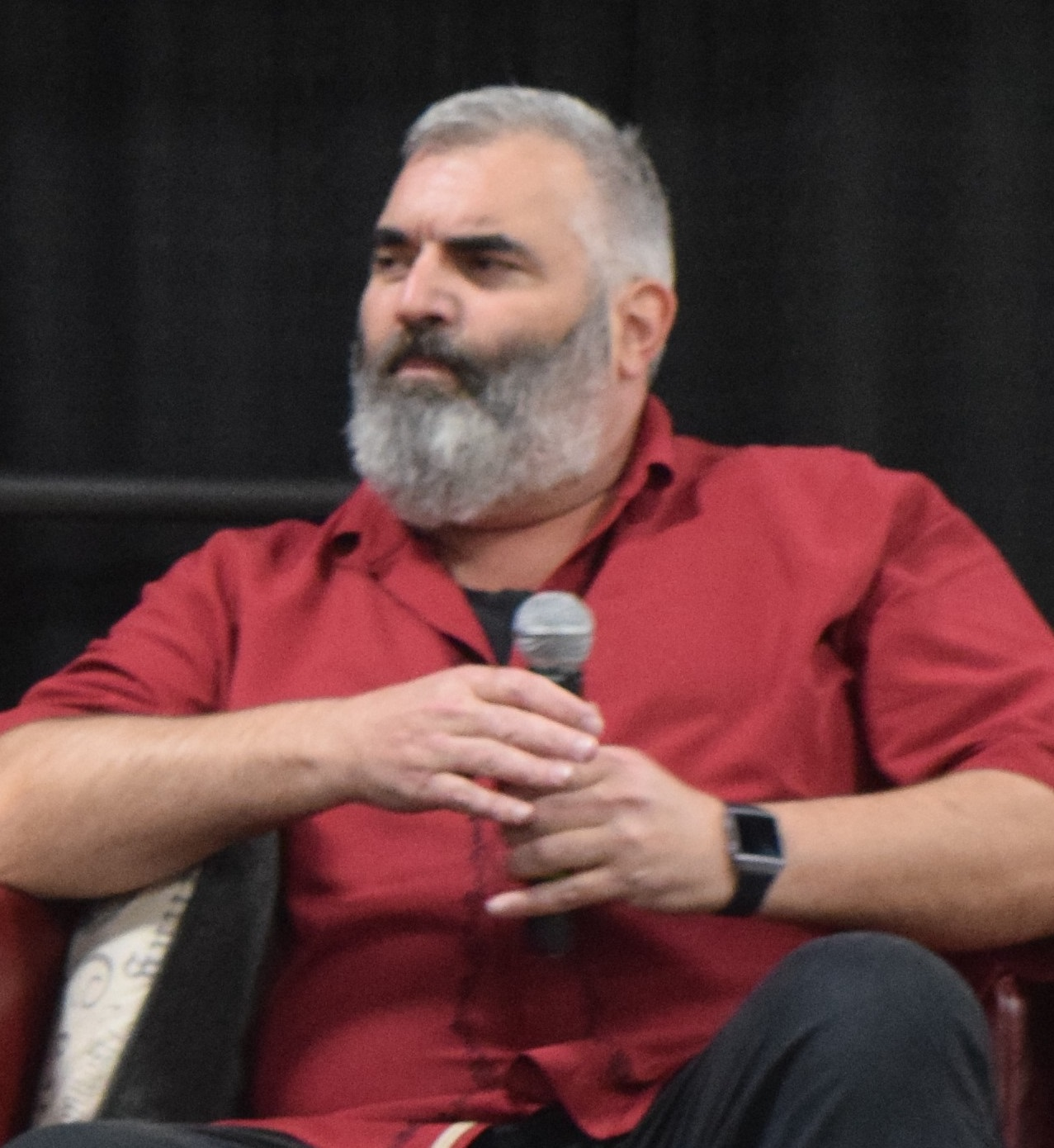 Benjamin Byron Davis at Great Philadelphia Comic-Con 2019.